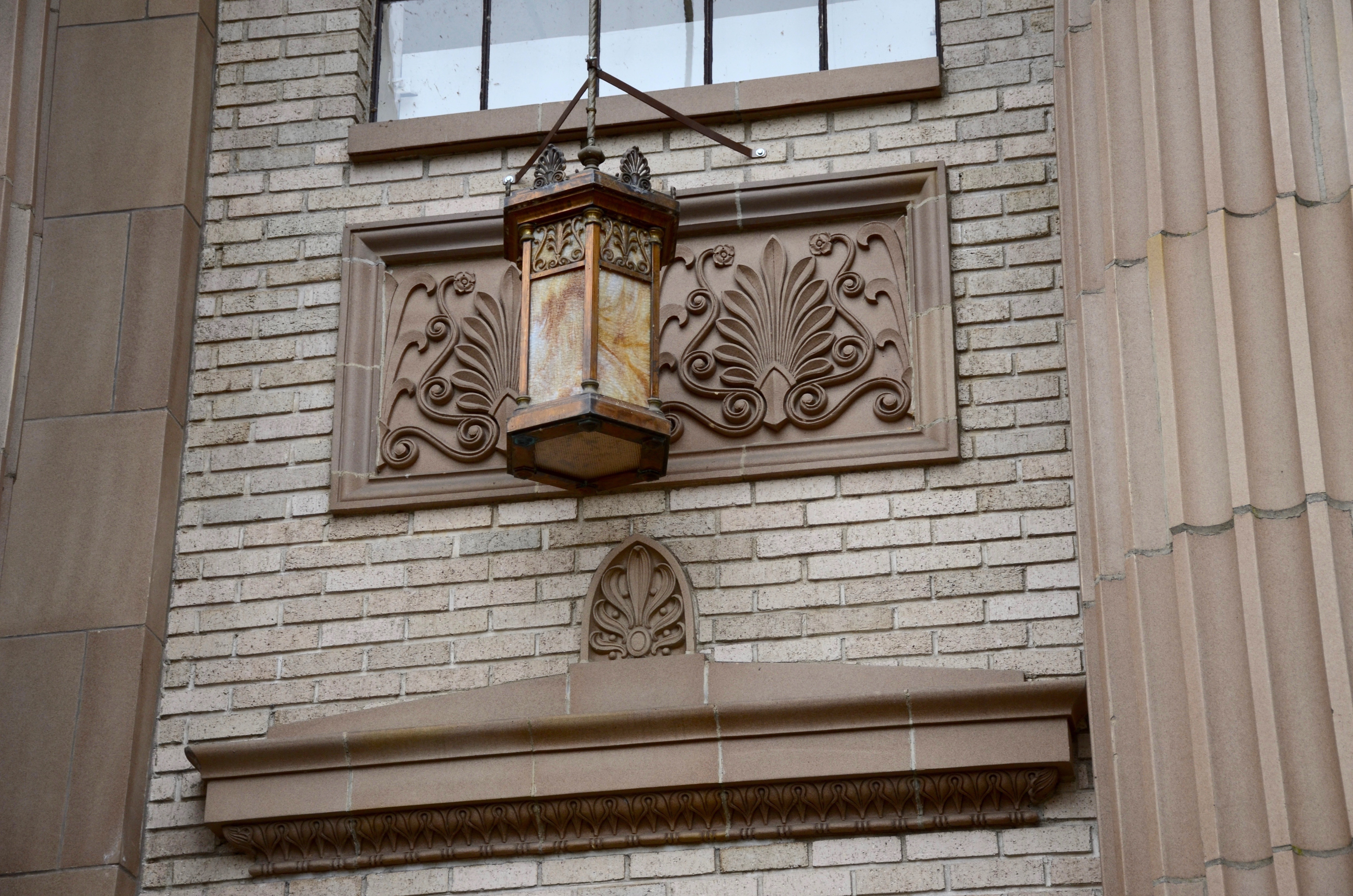 Ornamental bronze lantern and terracotta above one of the entrances to the Washington County Courthouse, in Hillsboro, Oregon. The courthouse was built in 1928–30.